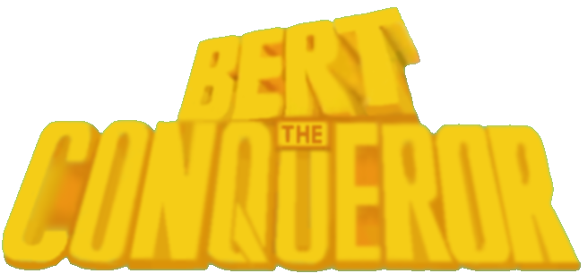 Logo from the Travel Channel television program Bert the Conqueror